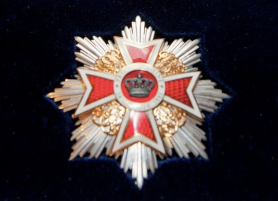 Grand Cross Star of the Order of the Crown of Romania